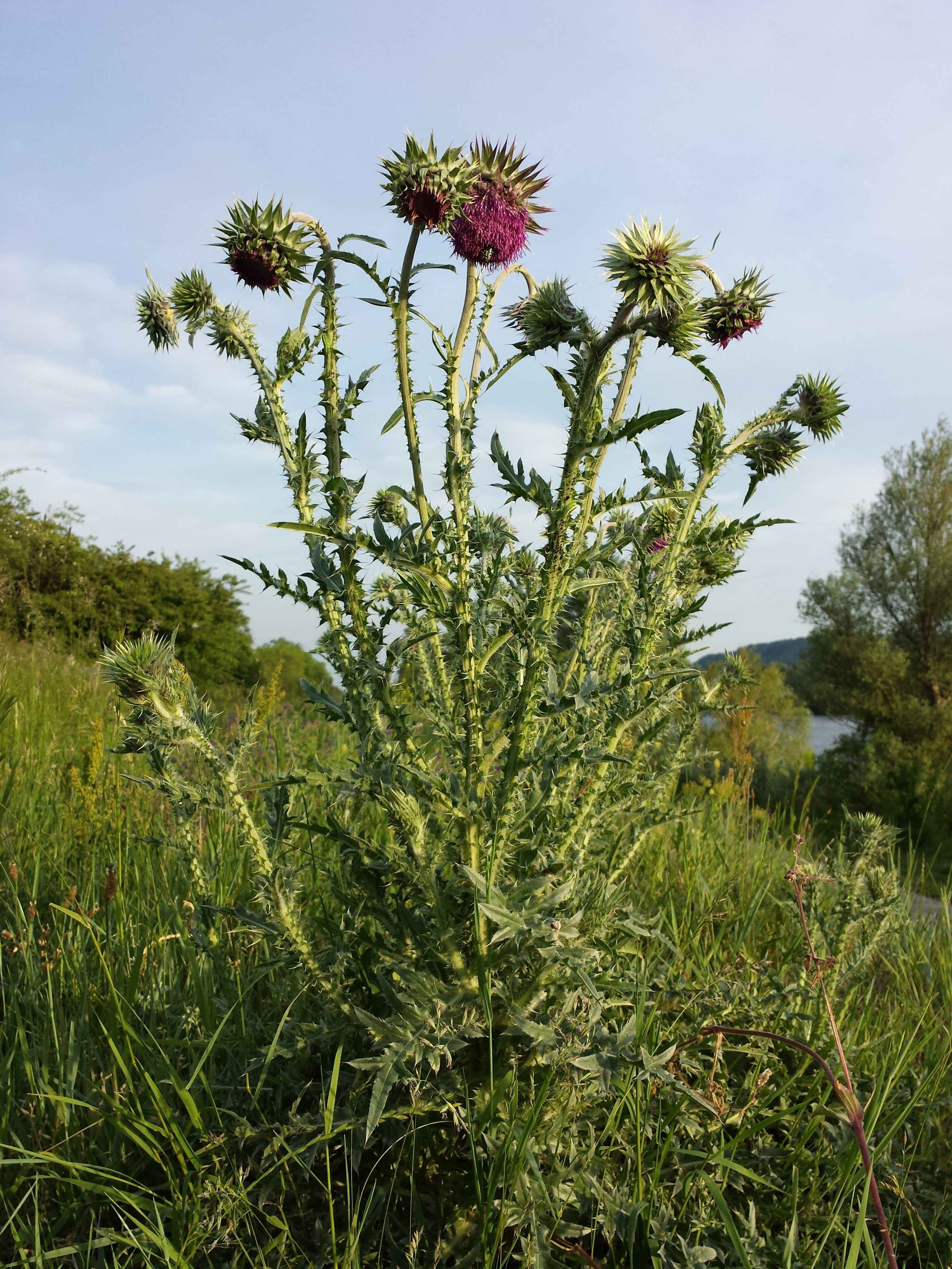 Habitus Taxonym: Carduus nutans ss Fischer et al. EfÖLS 2008 ISBN 978-3-85474-187-9 Location: Neue Donau, district Korneuburg, Lower Austria - ca. 160 m a.s.l. Habitat: slope